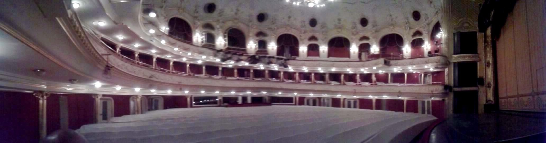 Budapesti Operettszínház (Operetta theatre of Budapest)